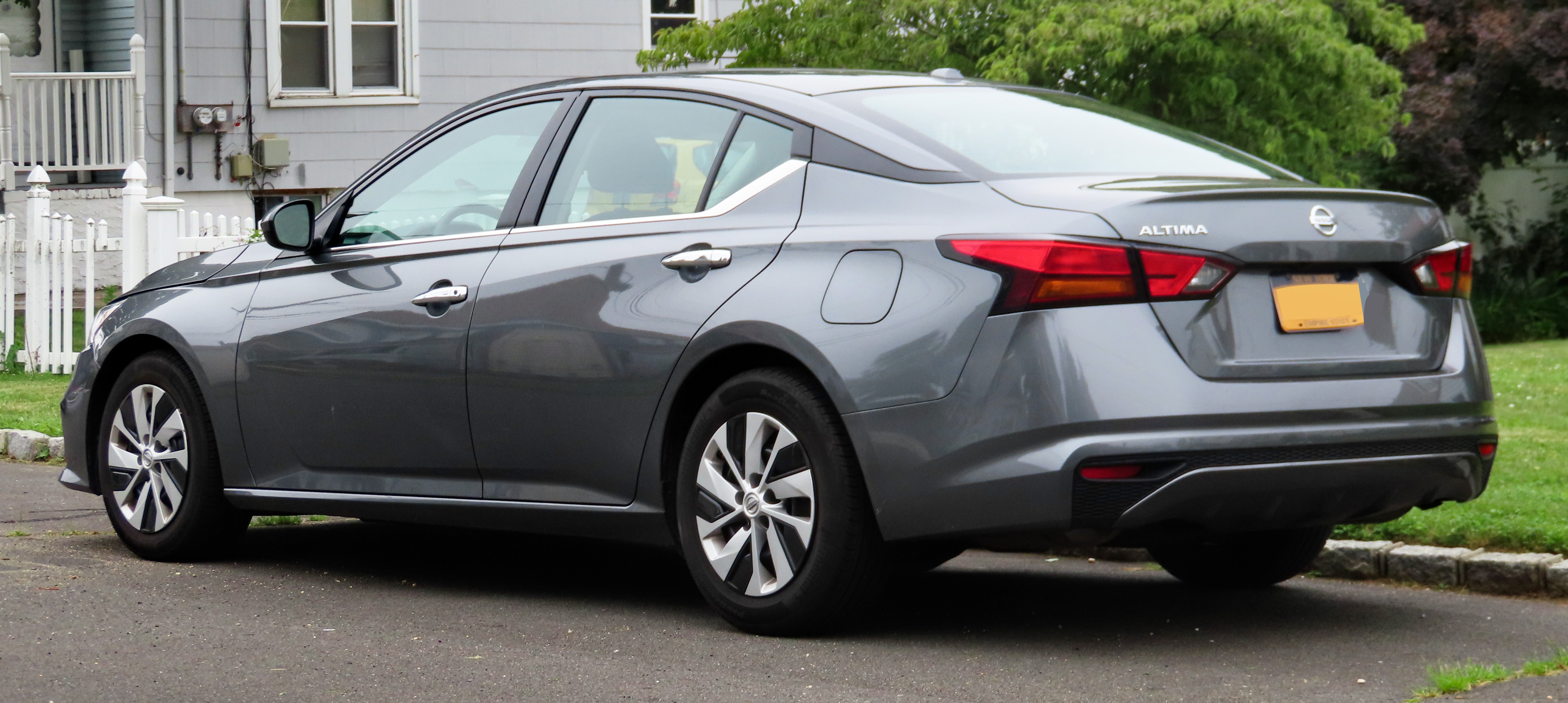 A 2019 Nissan Altima photographed in Lindenhurst, New York, USA